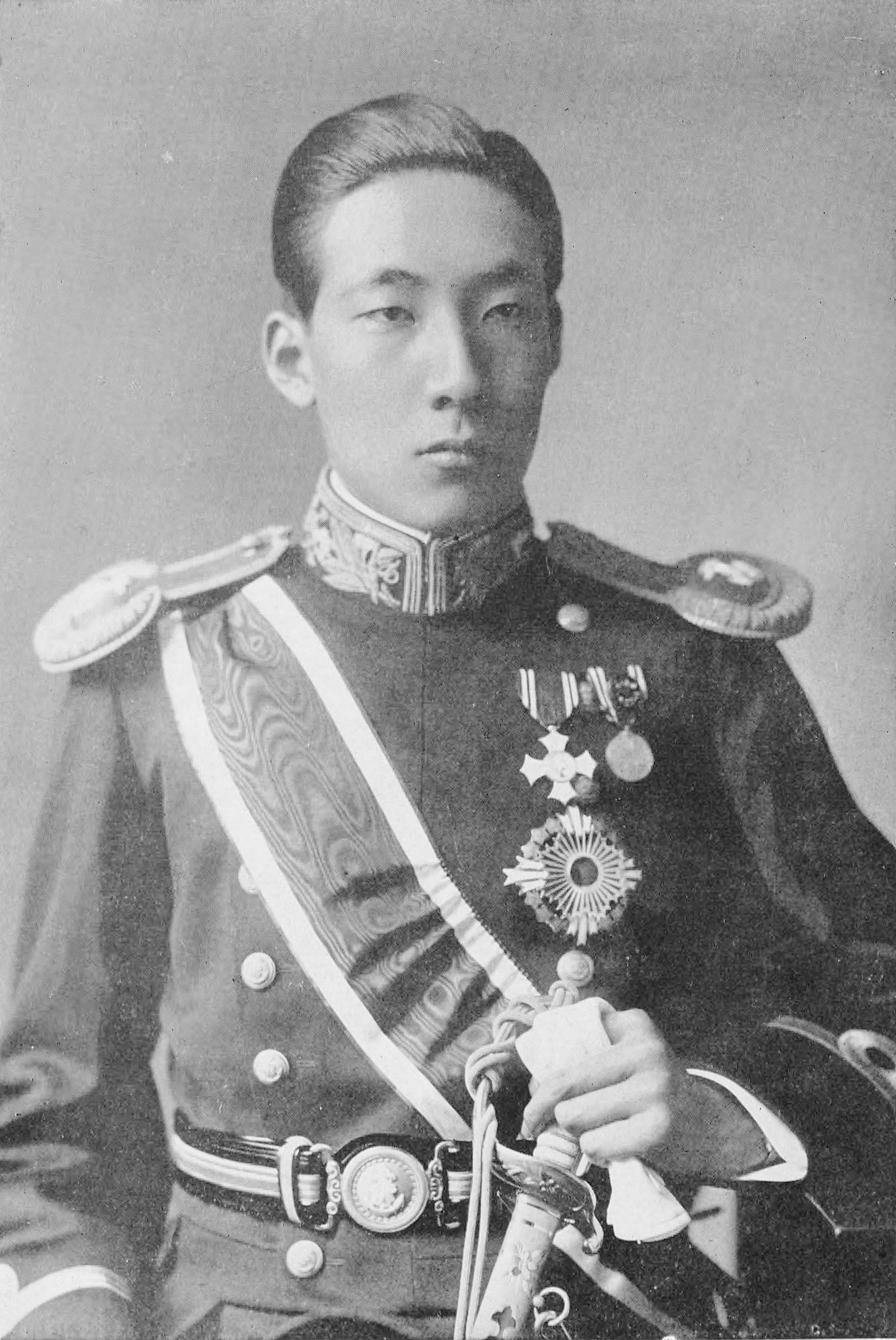 Prince Kacho-Hirotada